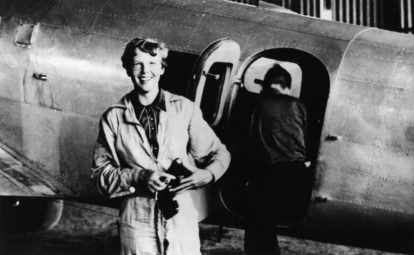 American aviator/pilot Amelia Earhart (1897-1937) standing by her Lockheed Electra dressed in overalls, with Fred Noonan getting into the plane in the background. Parnamerim airfield, Natal, Brazil.(Compare [1].)